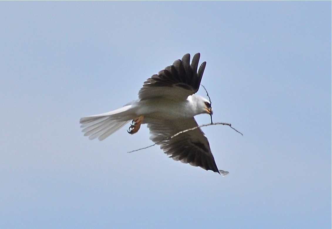 White-tailed Kite Elanus leucurus carrying a stick for nesting material. Los Osos, California.